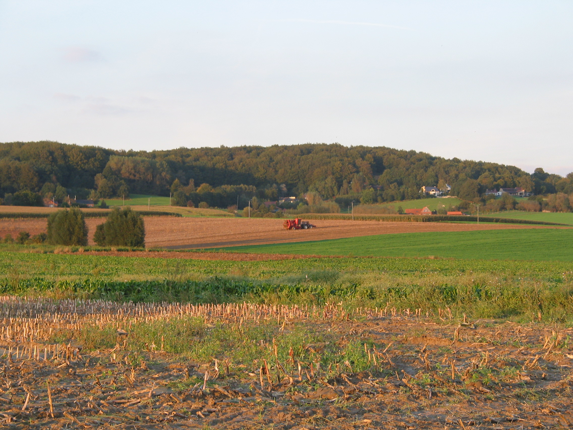 Amougies (Belgium), the "Mont de l'Enclus".